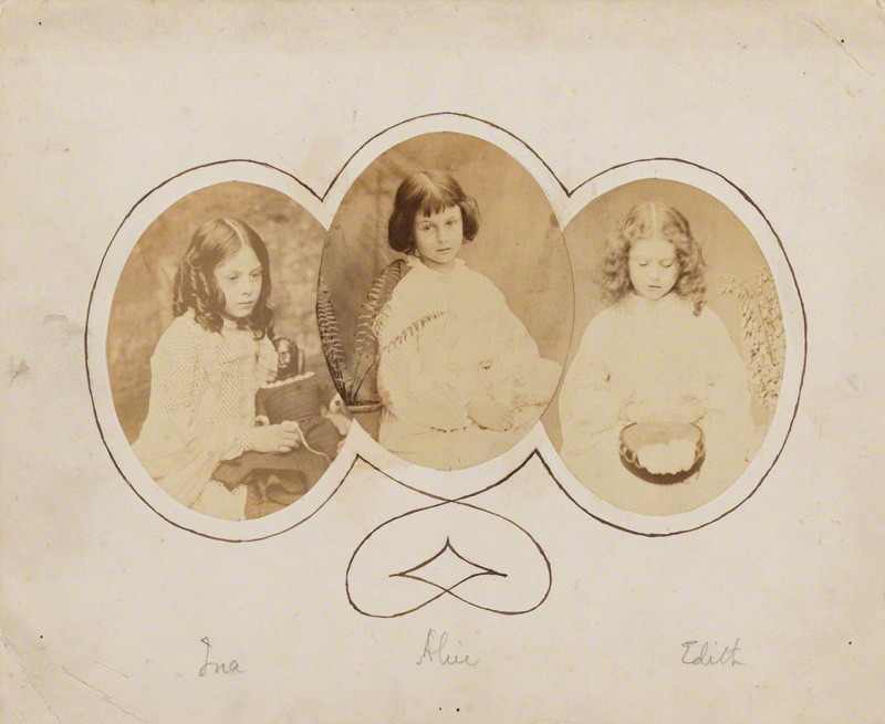 Lewis Carroll (Charles Lutwidge Dodgson), albumen prints, triptych, 1858-1860